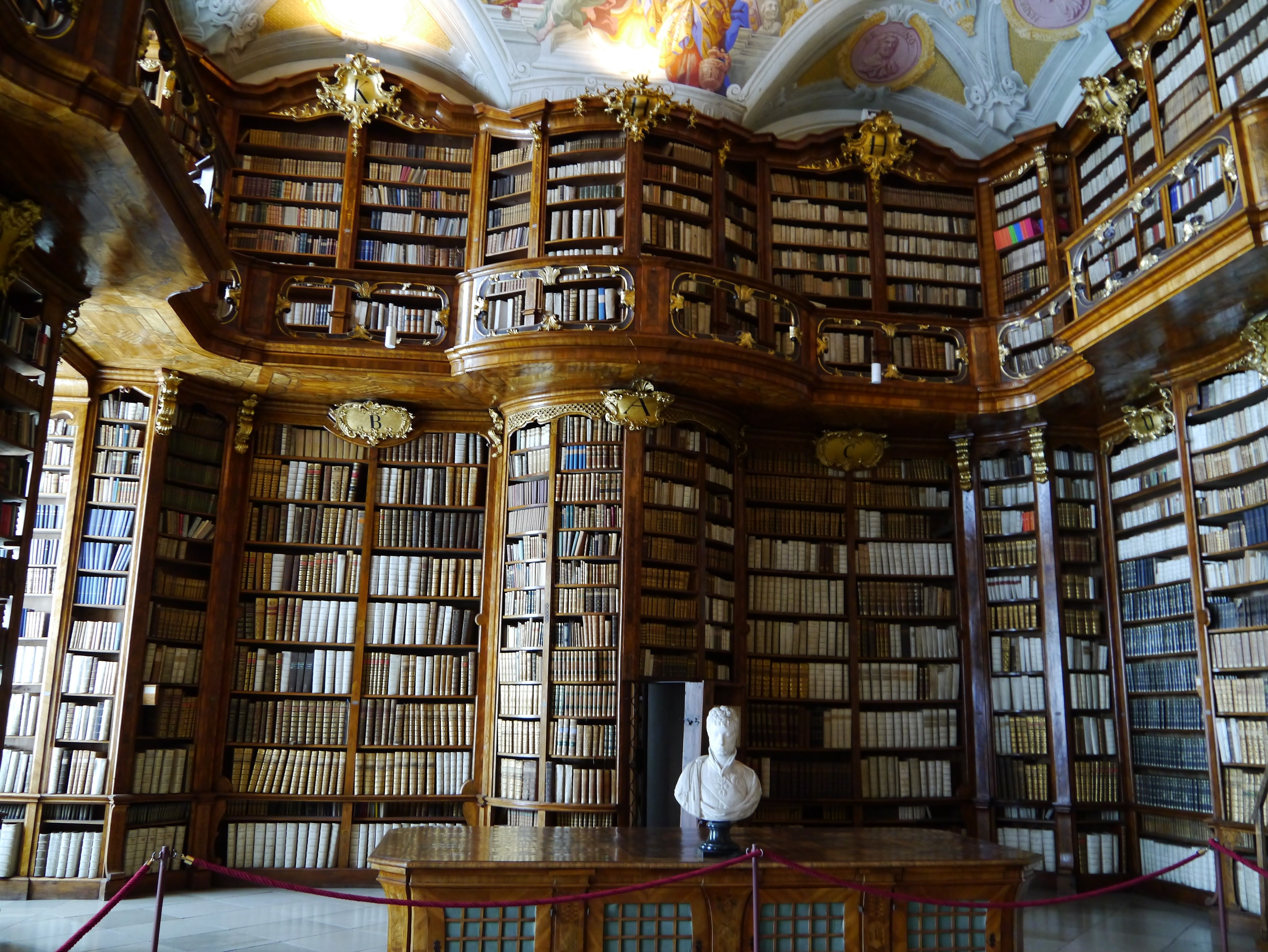 Library of St. Florian Abbey, Sankt Florian, Upper Austria